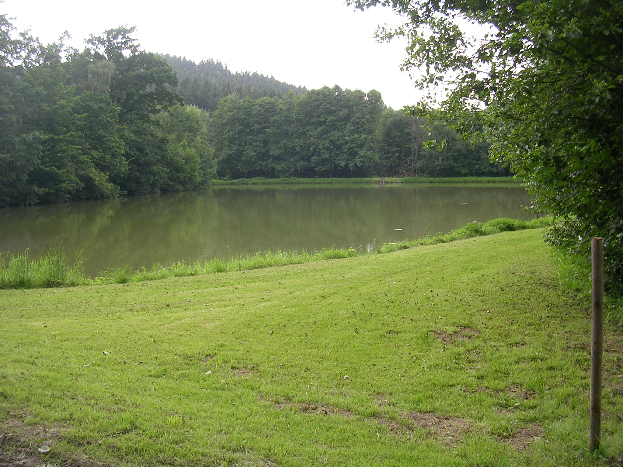 Sedlčany-Štileček, Příbram District, Central Bohemian Region, the Czech Republic. - Google Maps - Google Earth